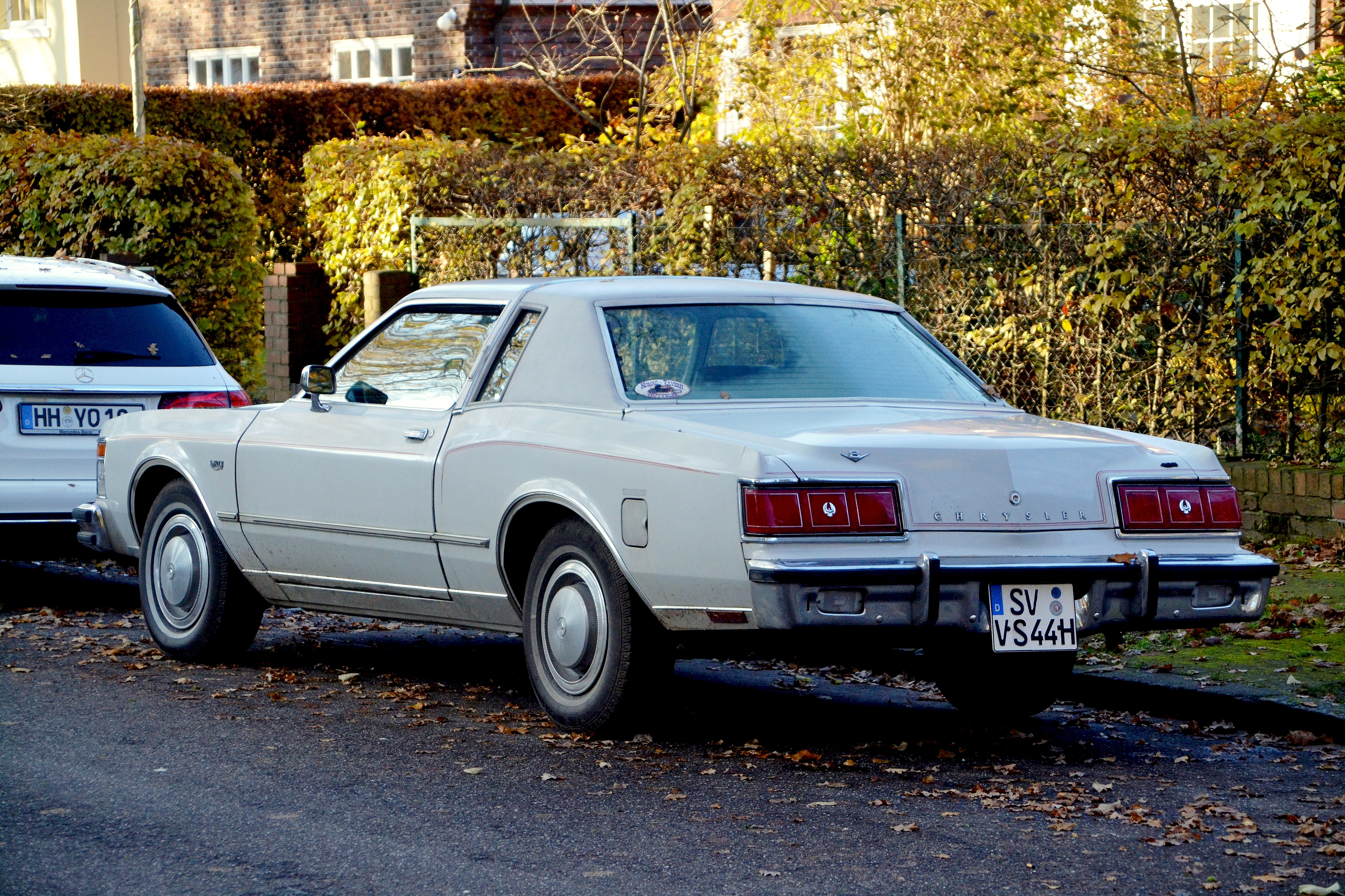 Chrysler LeBaron (M-Body) Coupé with German license. License Plate modifyed